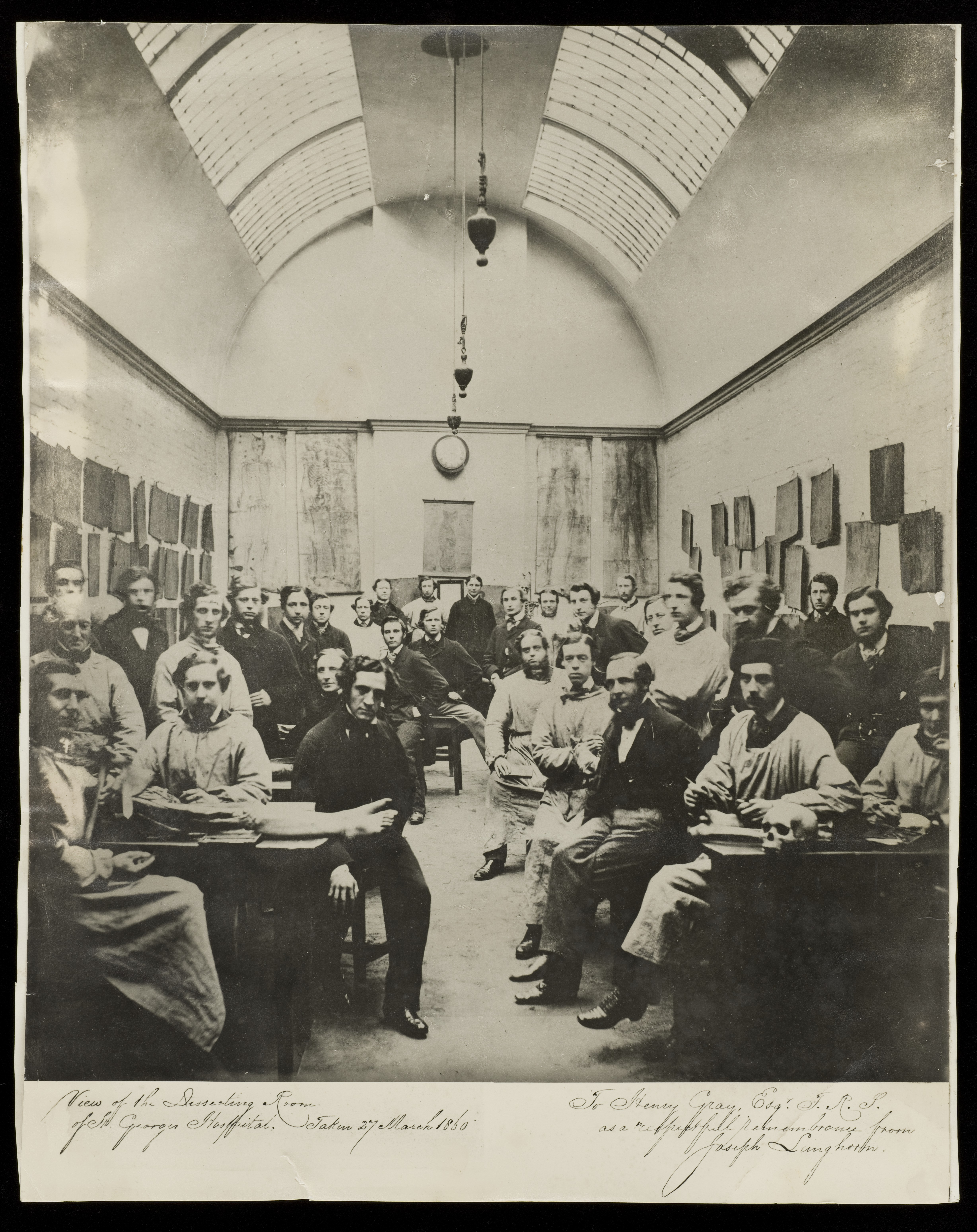 Saint George's Hospital, London: the dissecting room with students and lecturers, including Henry Gray. Photograph. Iconographic Collections Keywords: Henry Gray; St. George's Hospital (London, England). Medical School.